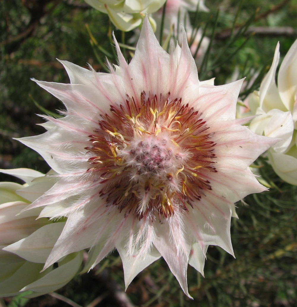 Serruria florida (cultivated, not labelled) National Rhododendron Gardens, Olinda, Victoria, Australia